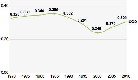 Trends in the Human Development Index for the country, 1970-2010